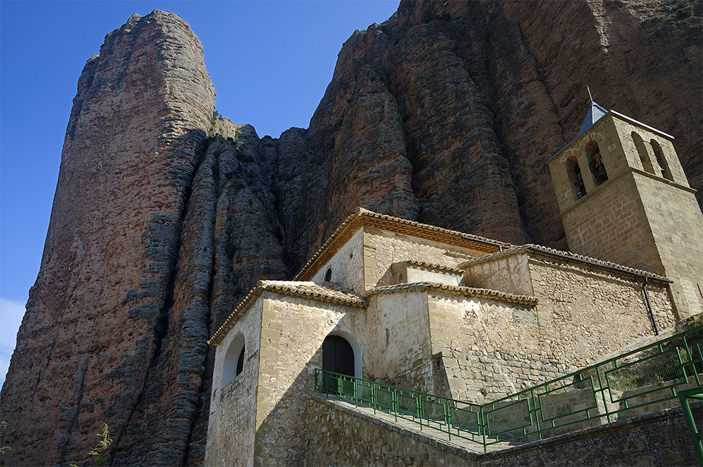 Mallo Pison in Mallos de Riglos (Huesca), España.